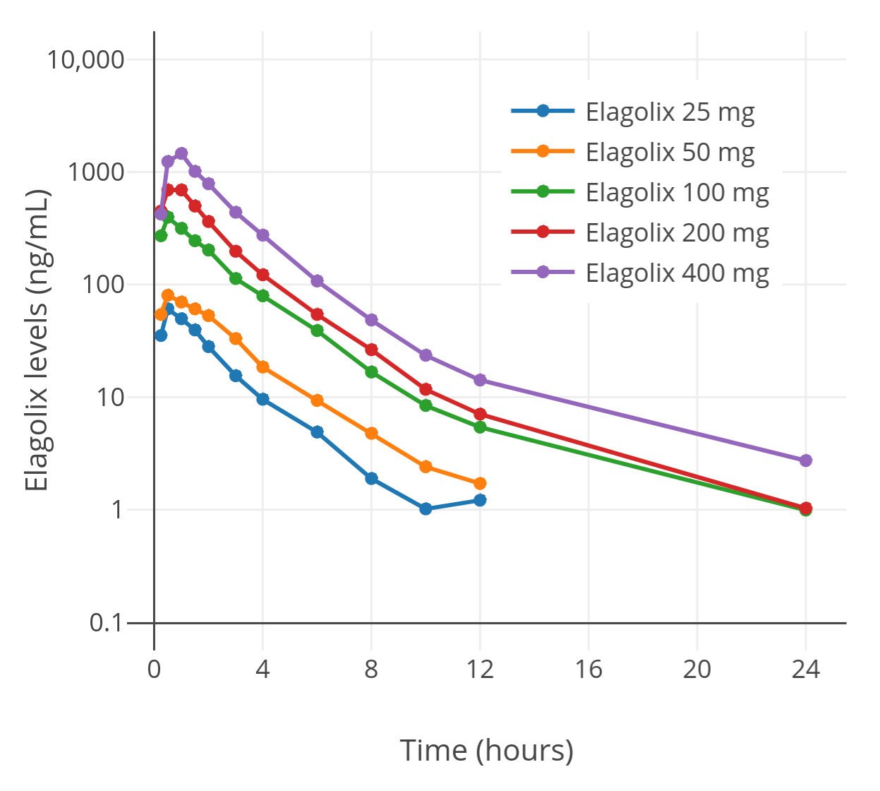 Levels of elagolix over a 24-hour period following a single oral dose of different doses (25 to 400 mg) of elagolix in premenopausal women. Source of the values: (February 2009). "Suppression of gonadotropins and estradiol in premenopausal women by oral administration of the nonpeptide gonadotropin-releasing hormone antagonist elagolix". J. Clin. Endocrinol. Metab. 94 (2): 545–51. PMID 19033369. PMC: 2646513.